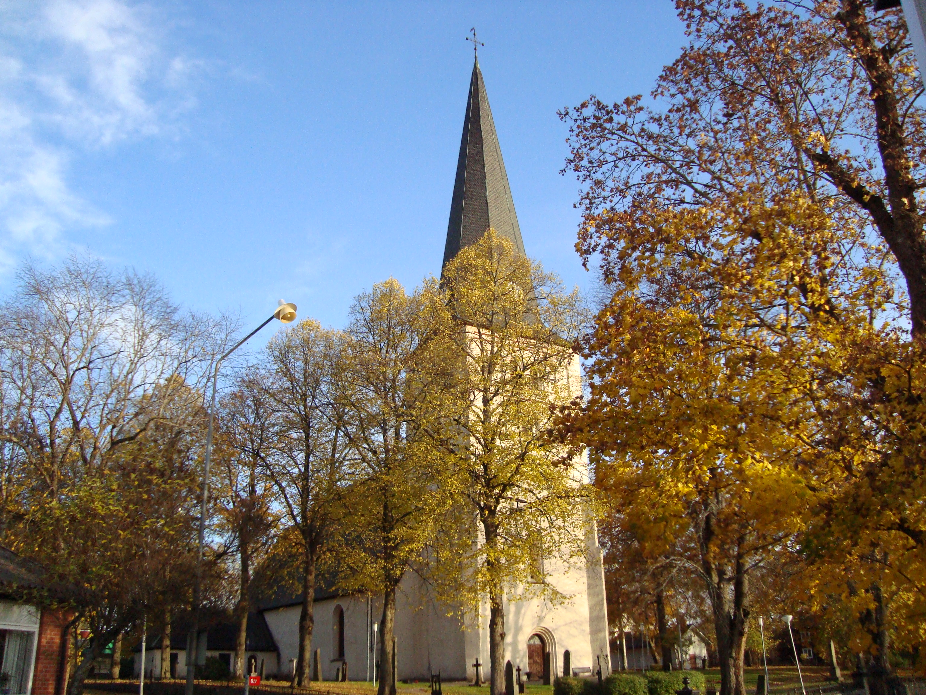 Church of Norberg, Sweden